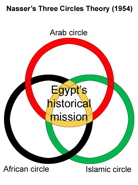 Graphic Interpretation of Nassers Three Circles Theory about Egypt's Position and Mission, mentioned in "Egypt's Liberation - The Philosophy of the Revolution" by Premier Gamal A. Nasser (1954), Washington 1955